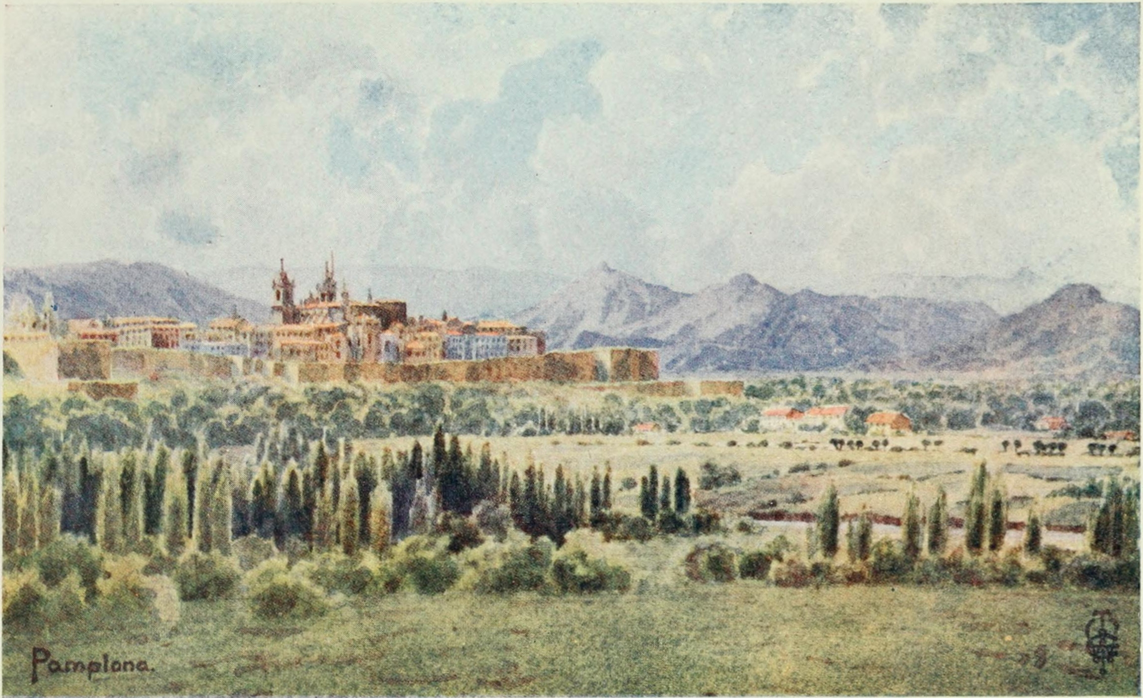 Pamplona from the road to the frontier.